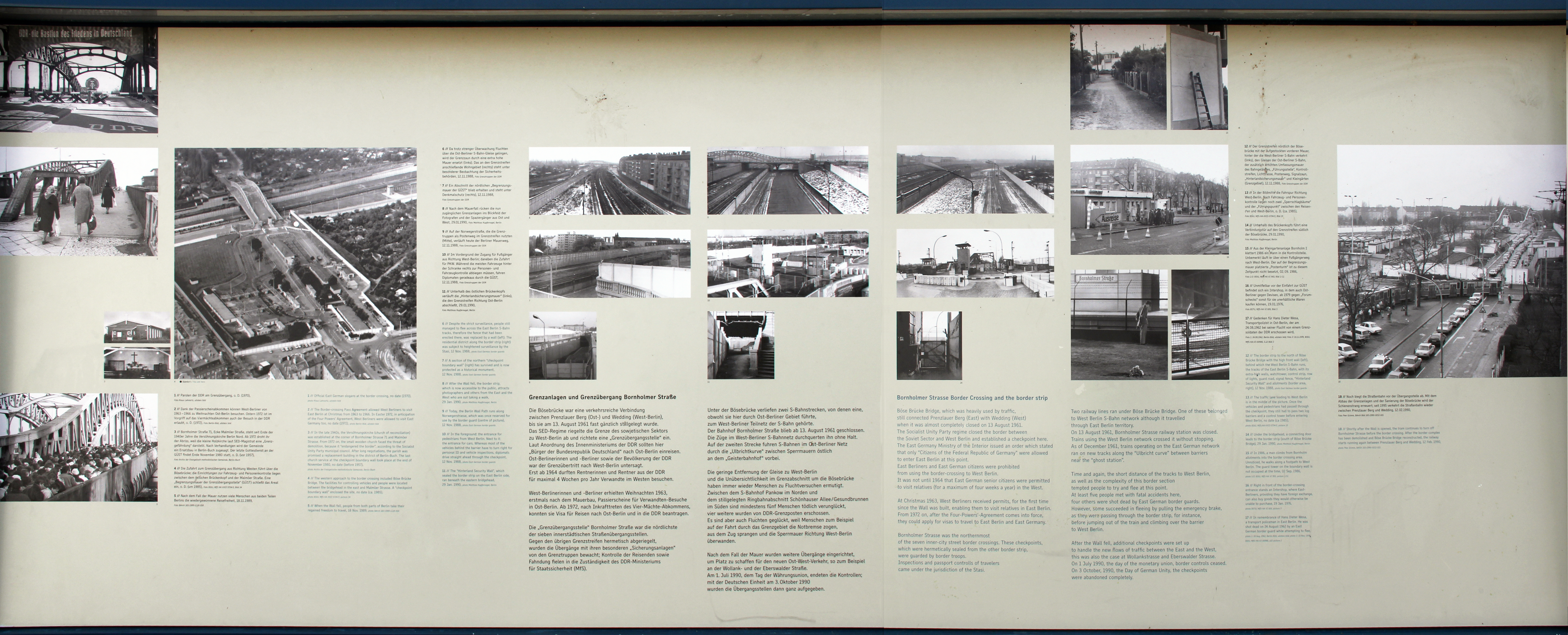 Memorial plaque, Grenzübergang Bornholmer Straße, Bornholmer Straße, Berlin-Prenzlauer Berg, Germany